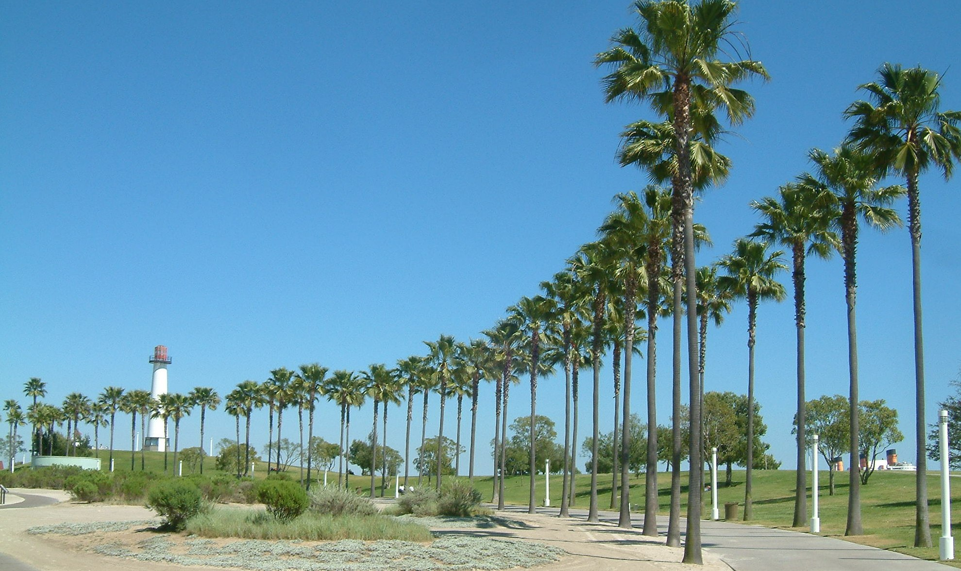 A landscape avenue (allée) of palm trees, in a city park in Long Beach, Los Angeles County, California. Mexican fan palm (Washingtonia robusta) trees.